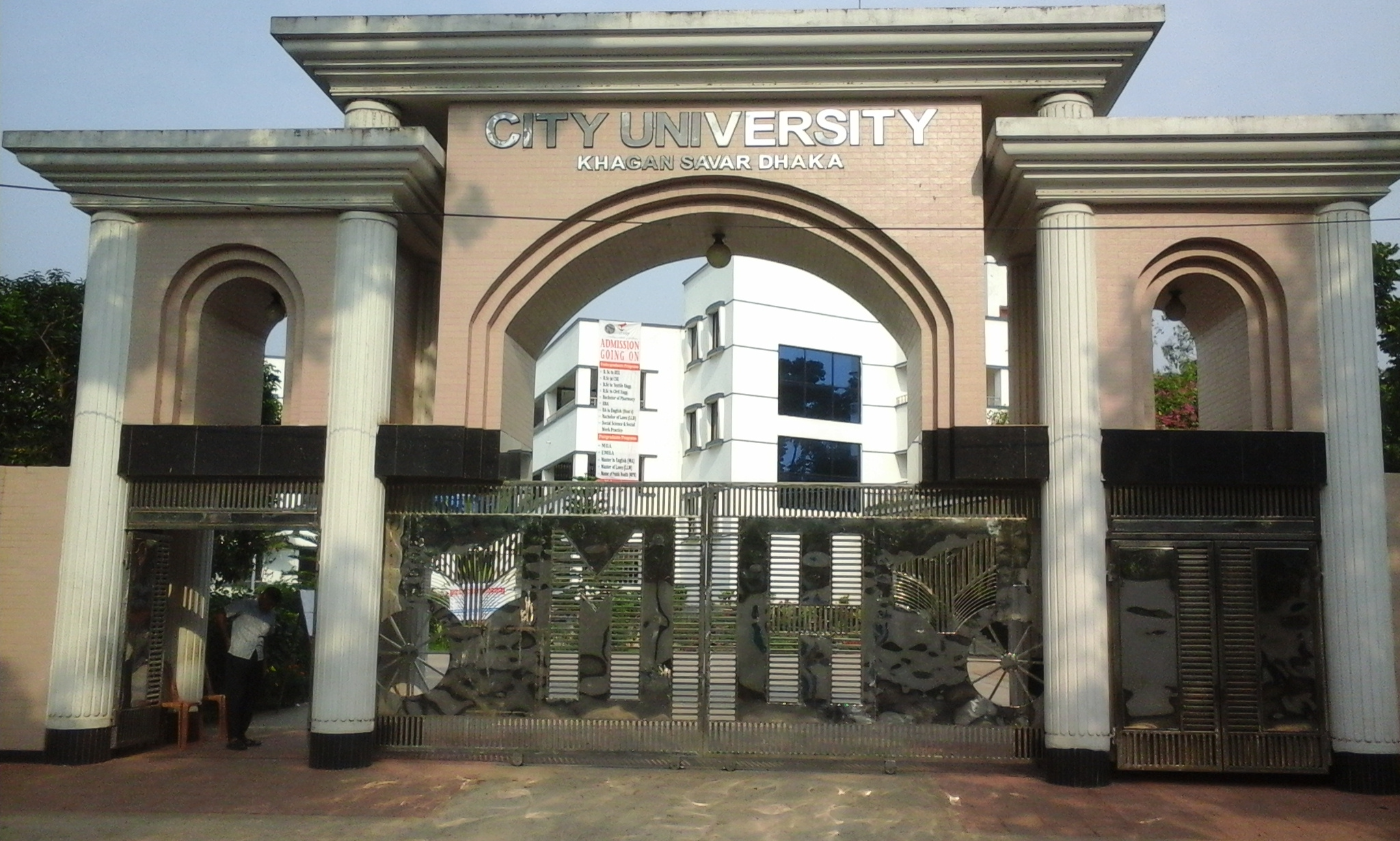 Bangladeshi most popular private university. Its established 2002. Its mean campus at Ashulia Savar Dhaka .